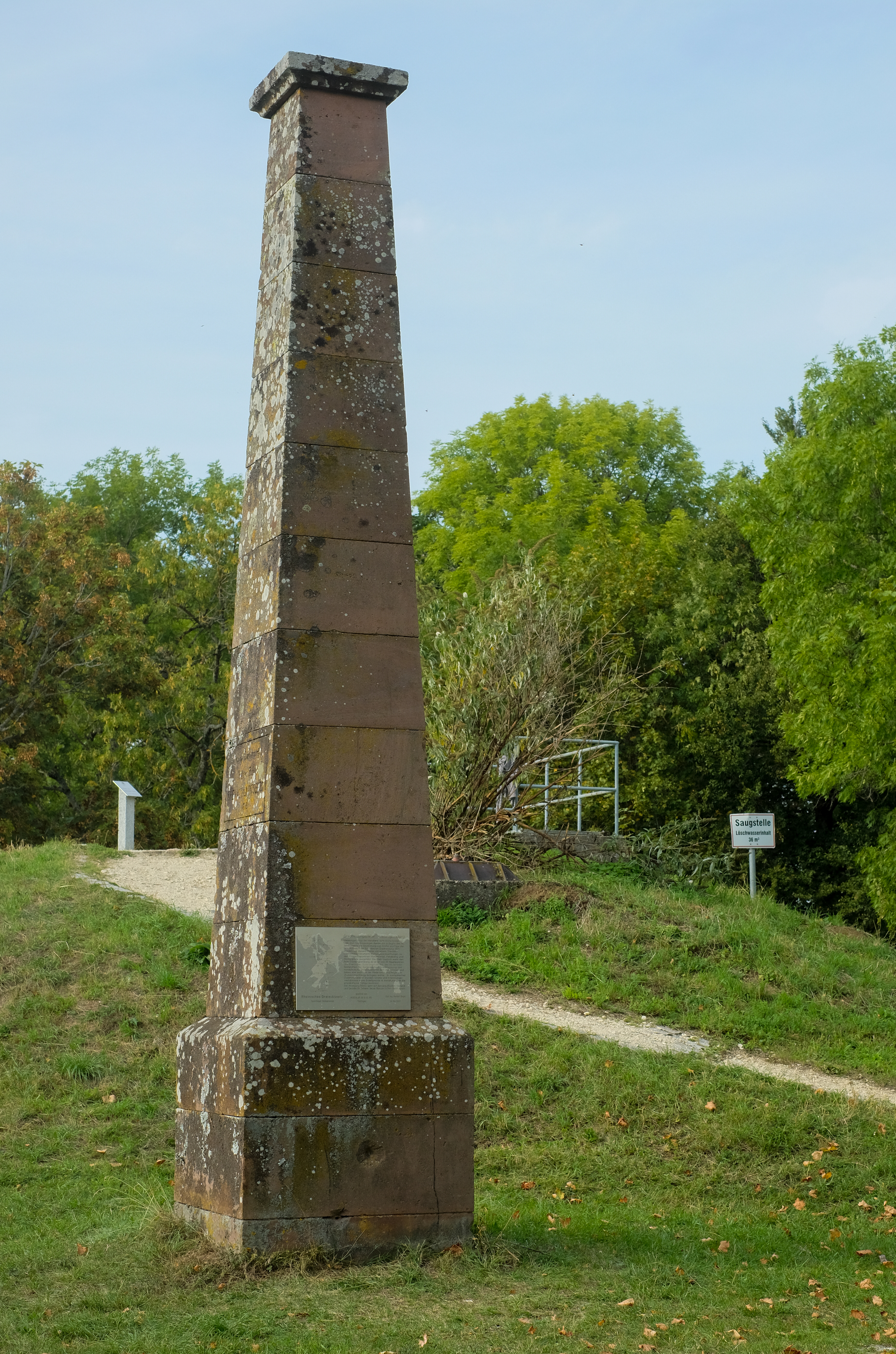 Surface reference mark Dreifaltigkeitsberg, used in 1875 for Grade measurement Spaichingen, district Tuttlingen, Baden-Württemberg, Germany